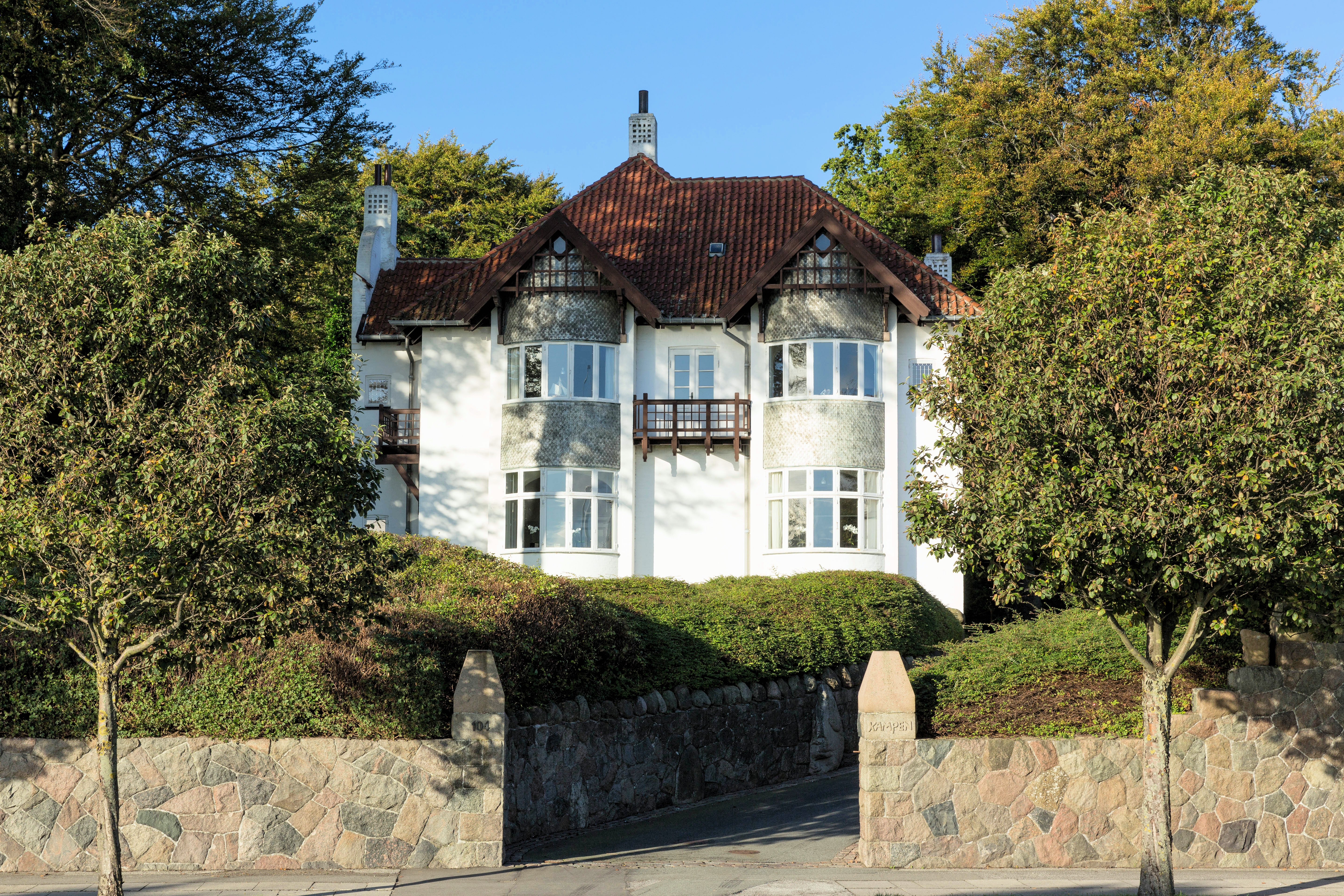 Villa Kampen seen from Strandvejen, Aarhus